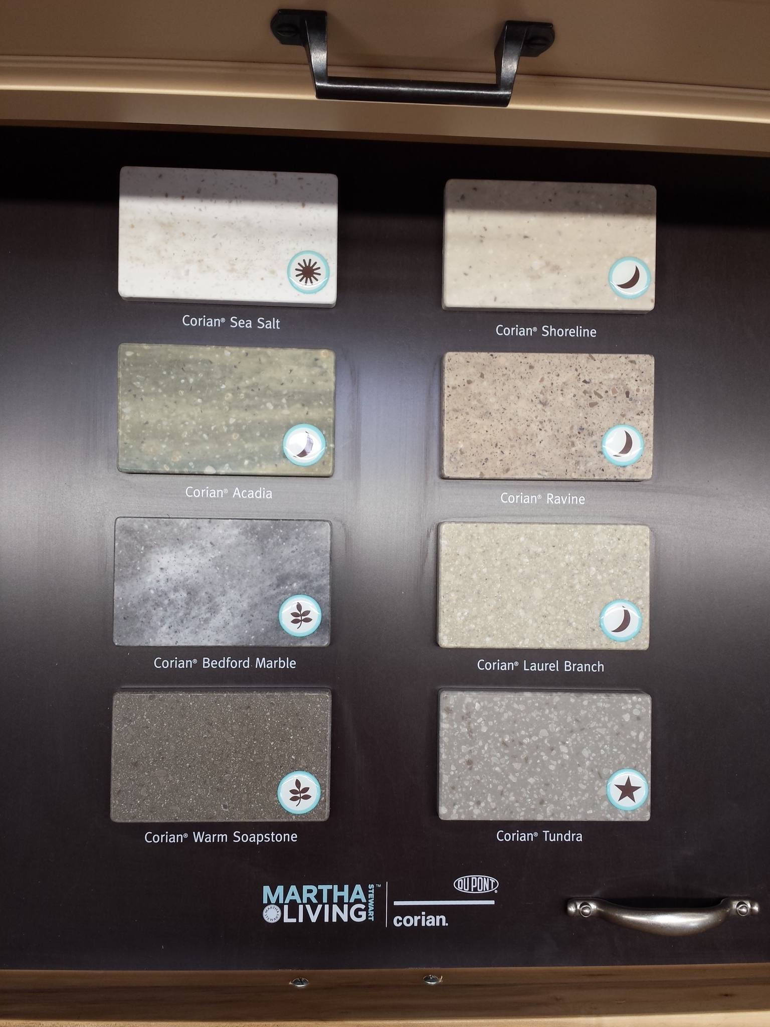 Samples of Martha Stewart Living Collection Corian solid surface